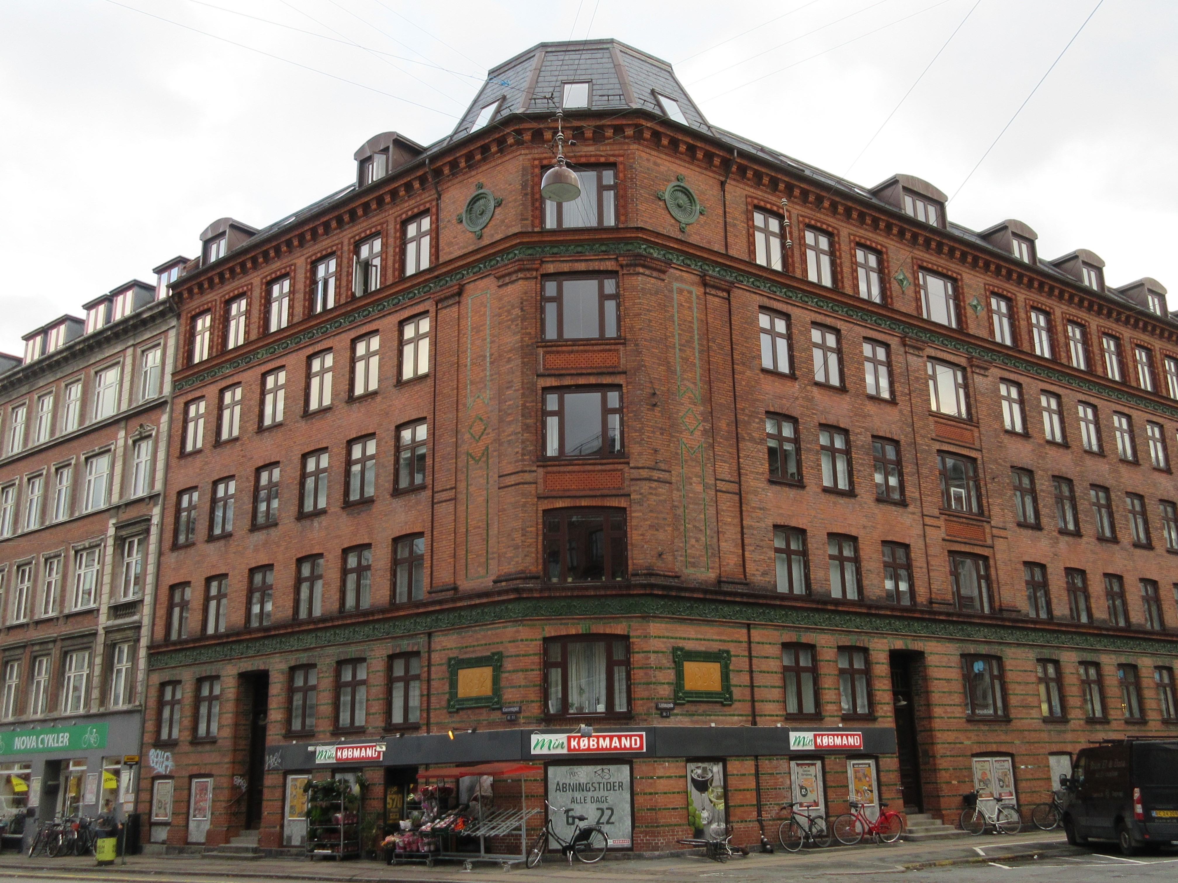 Høkerforeningens Stiftelse in Classensgade in Copenhagen, Denmark